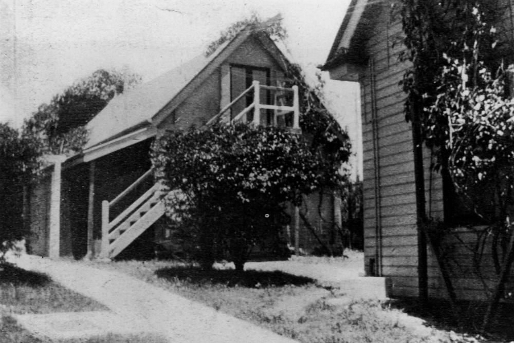 Original brick stables at Middenbury,Toowong, 1932. The original brick stables at Middenbury. Part of the modern garage is seen in the right foreground. (Description supplied with photograph).